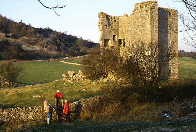 Arnside tower, Arnside